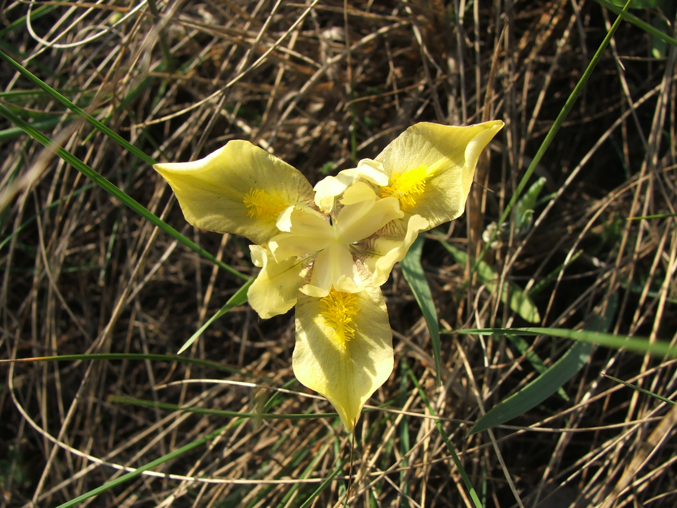 Iris humilis subsp. arenaria syn. Iris arenaria. Szentendrei-sziget, Hungary.